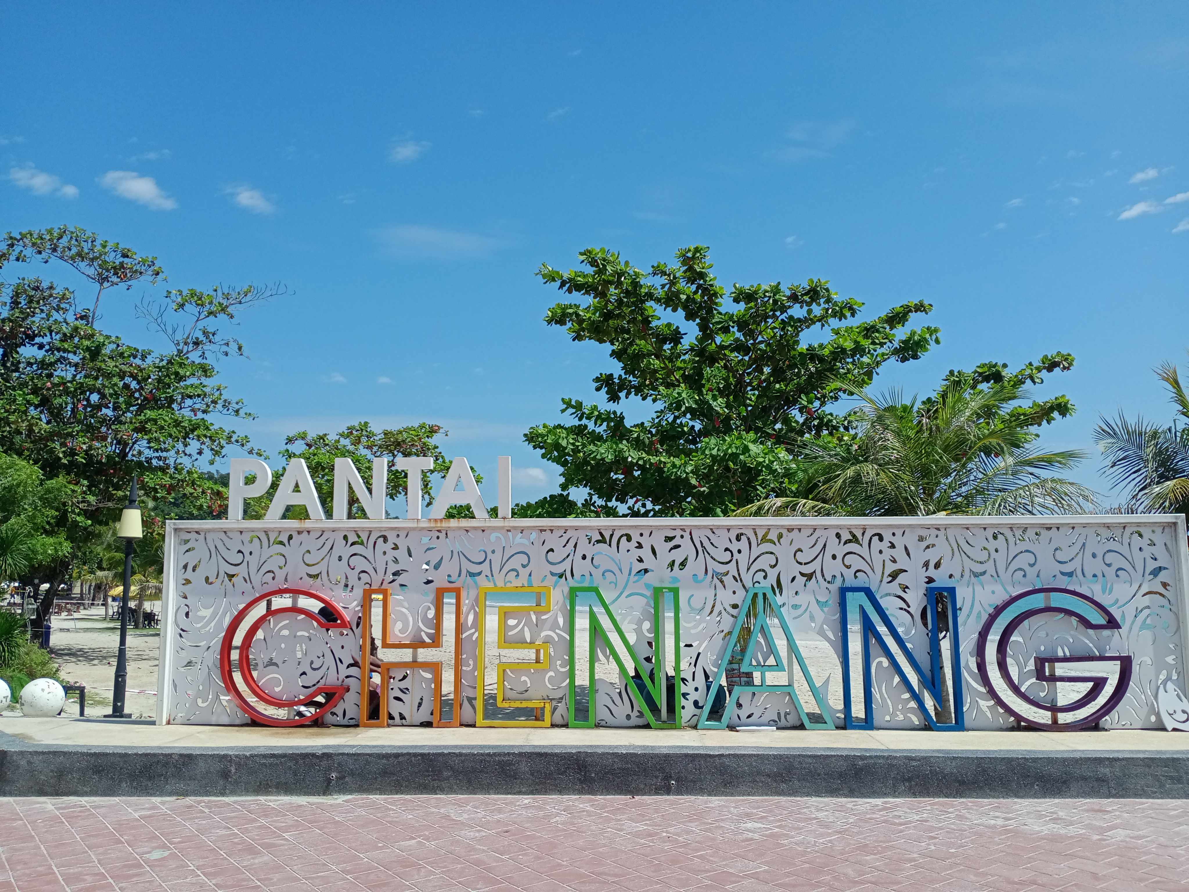 Pantai Cenang or Cenang Beach is one of beaches in Langkawi